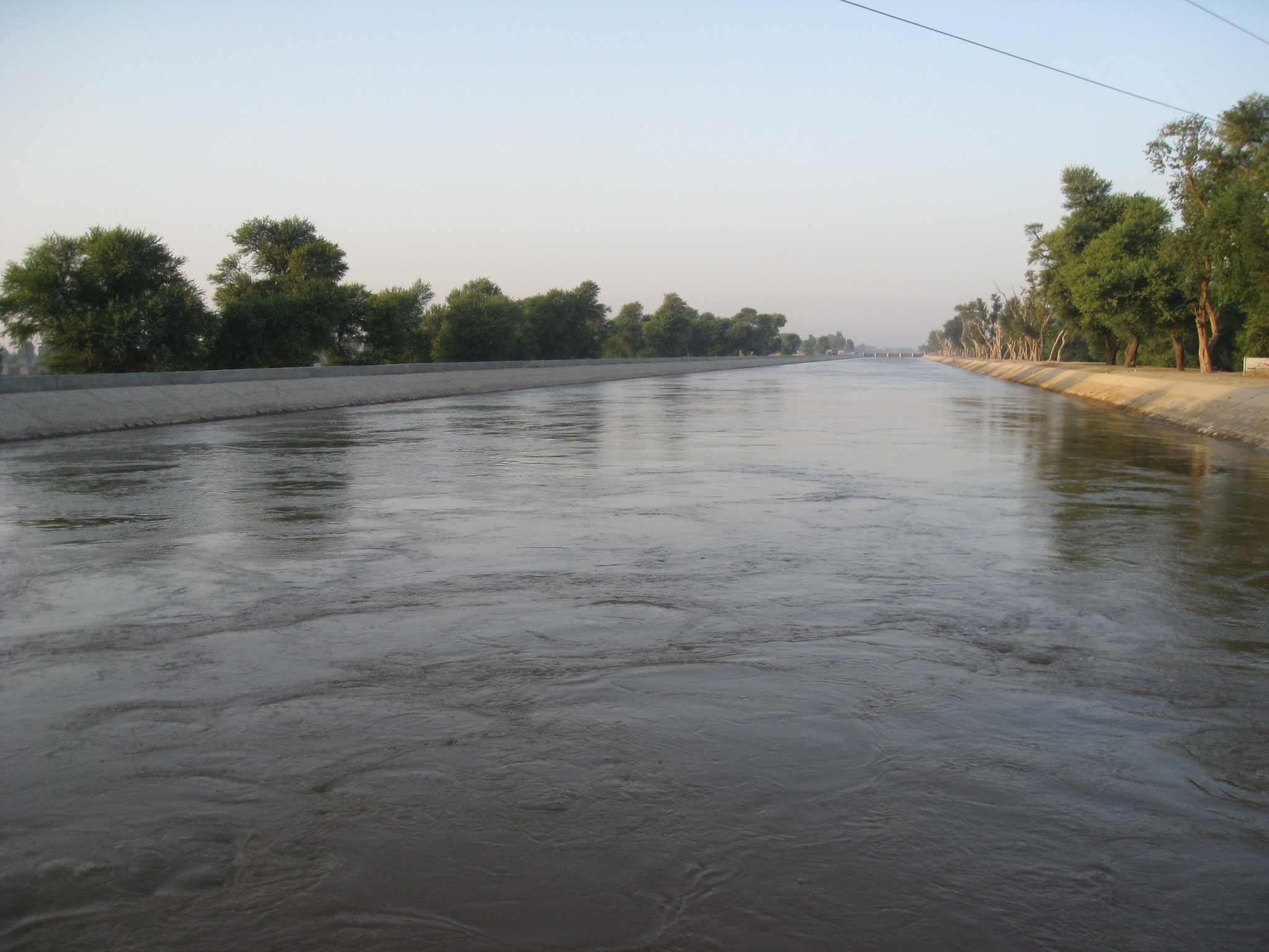 Bahawal Canal, Khairpur Tamewali, District Bahawalpur